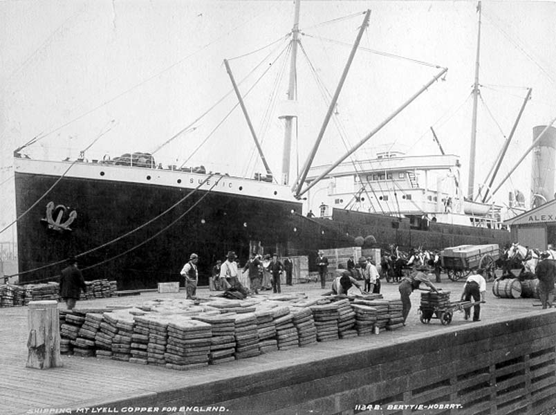 SS Suevic at Hobart, Tasmania